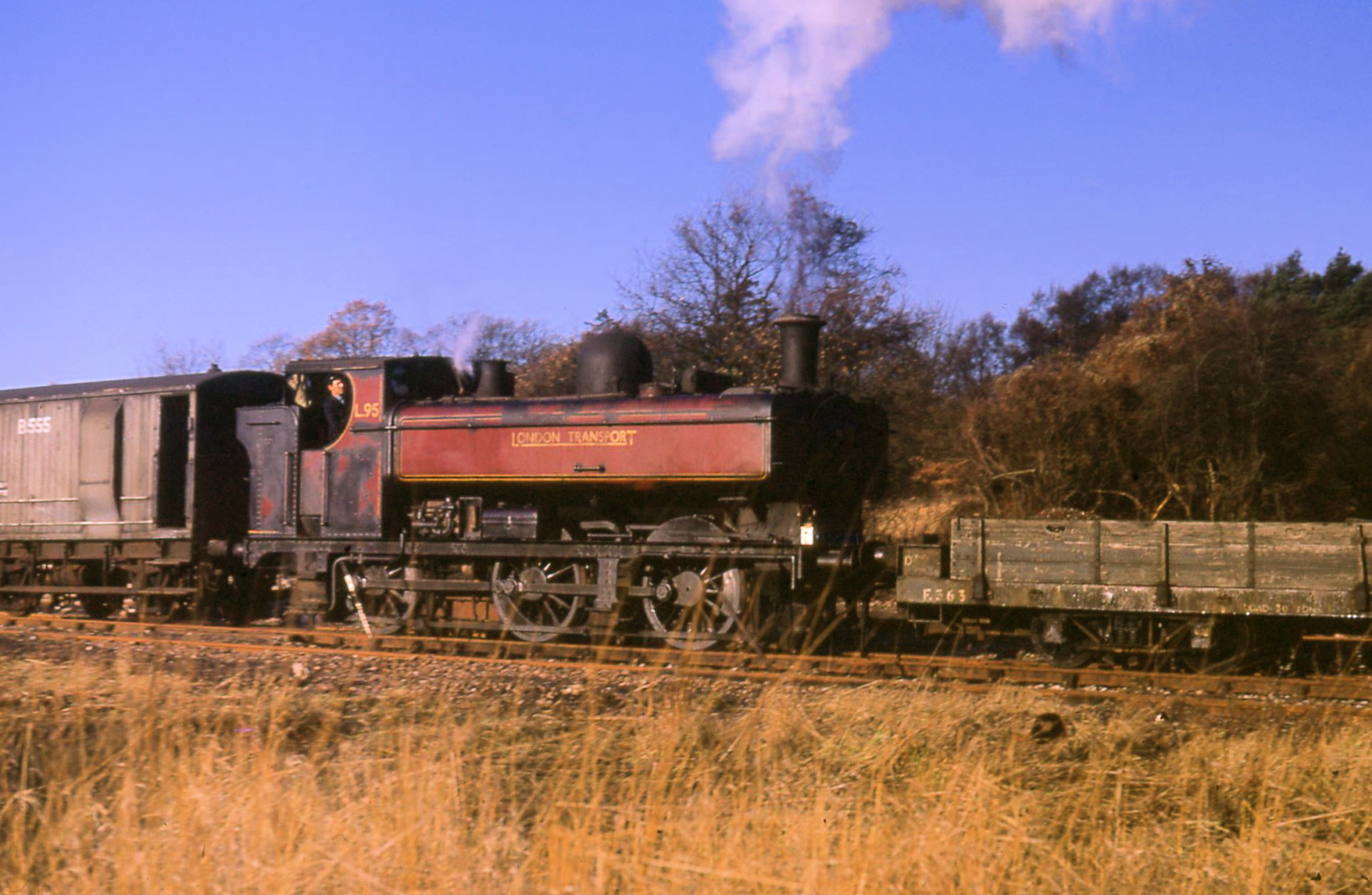 GWR 5700 class as London Transport no. L95 shunts at Croxley Tip, June 1969